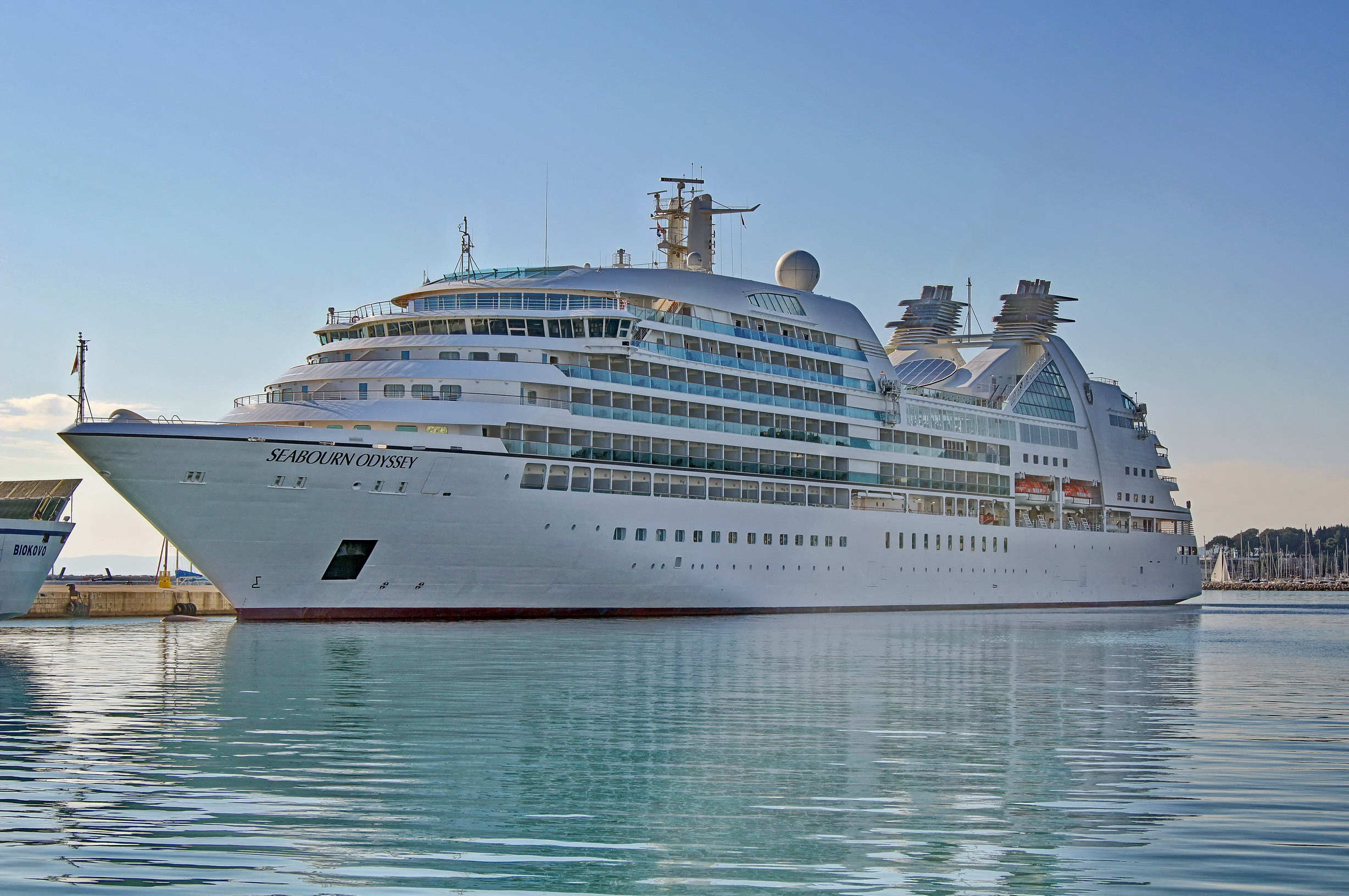 Seabourn Odyssey (ship, 2009) IMO 9417086: in Split, 2011-11-16